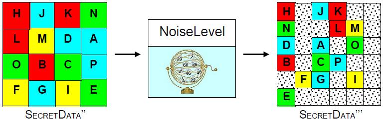 OpenPuff v3.30 Architecture - 12